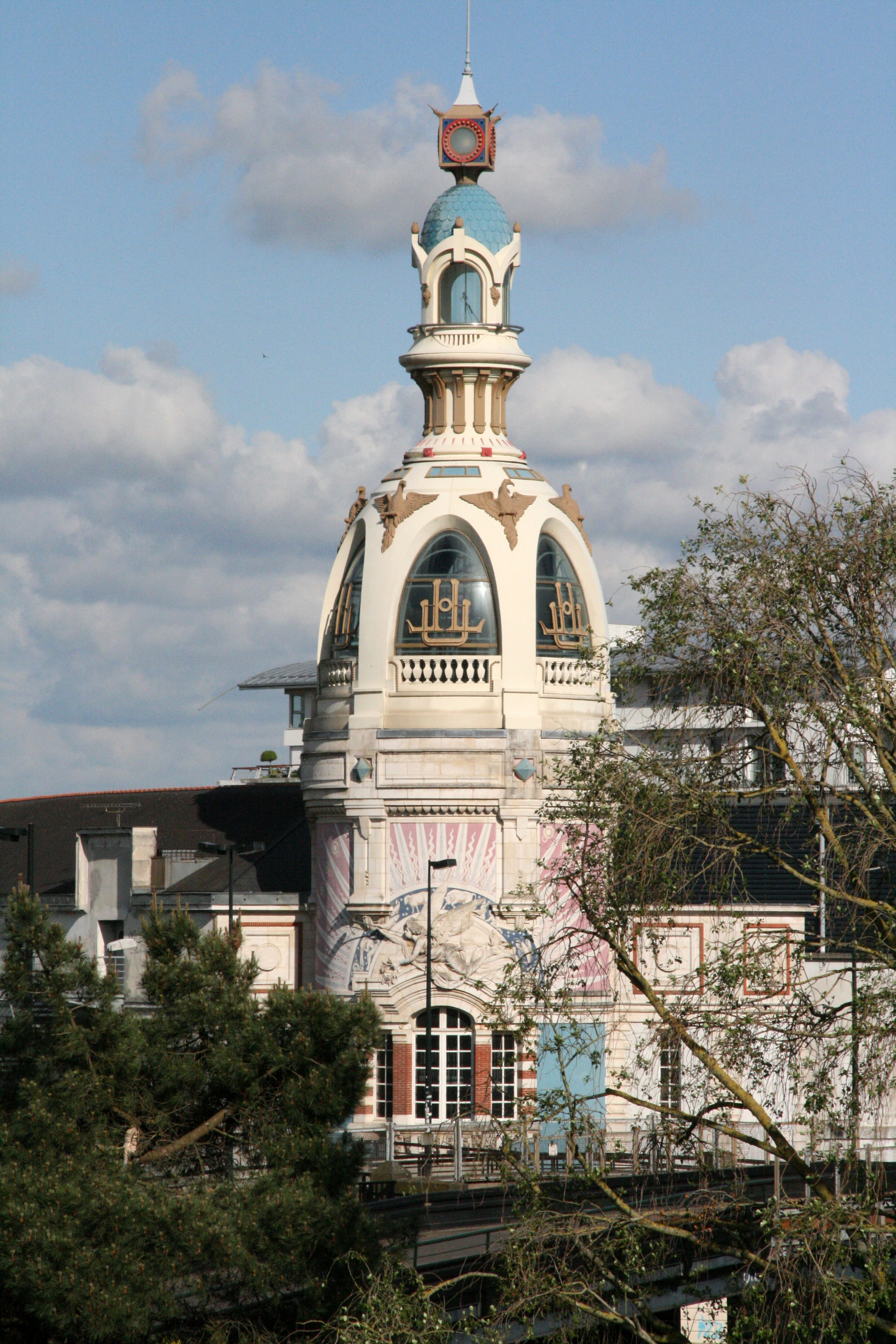 Tower of former Lu factory, viewed from the walls of the castle of the Dukes of Brittany, Nantes, Loire-Atlantique, Pays de la Loire, France.